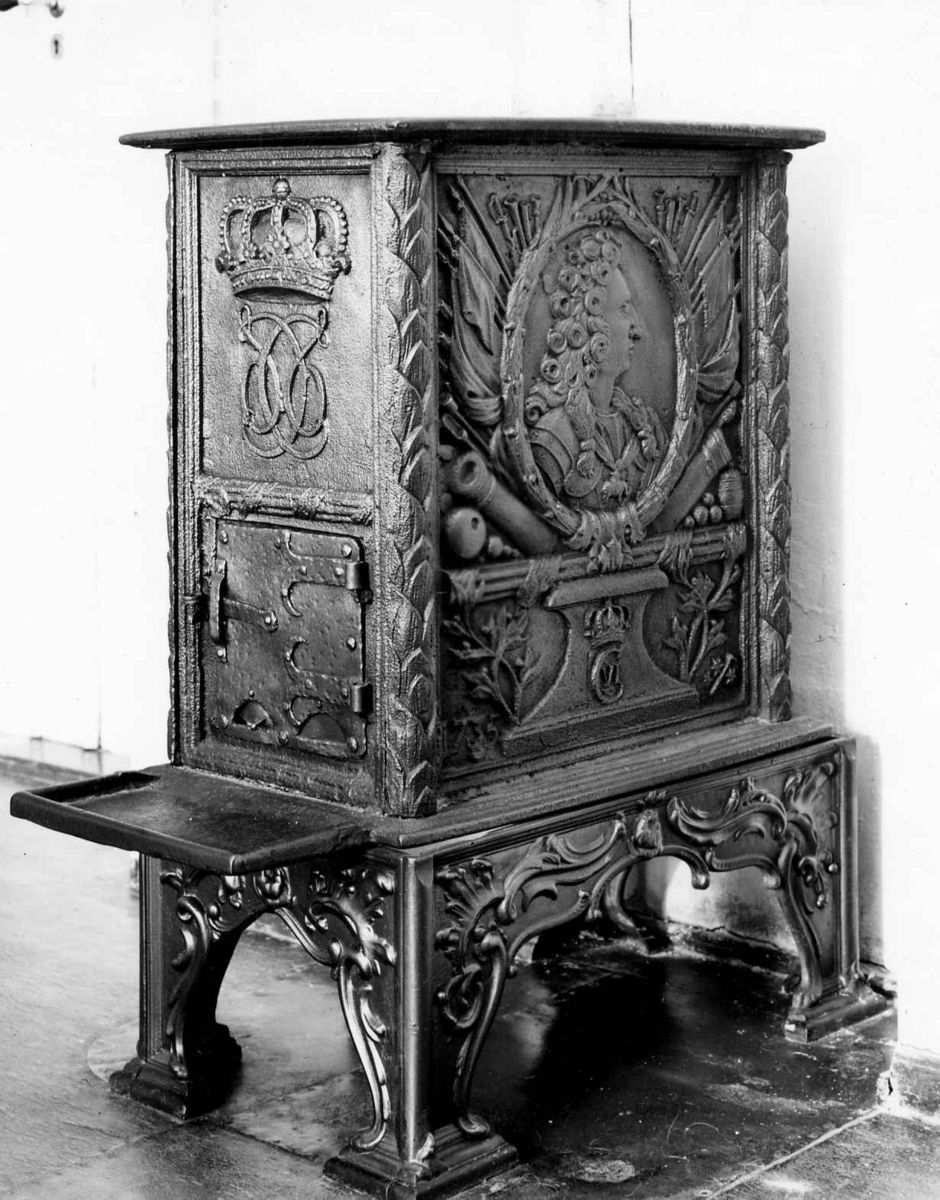 Cast iron oven from early 18th century from the farm Skinnarbøl in Kongsvinger, Hedmark, Norway. The motiv is king Christian VI of Denmark and Norway. Owned by Norsk Folkemuseum (Norwegian Folk Museum).